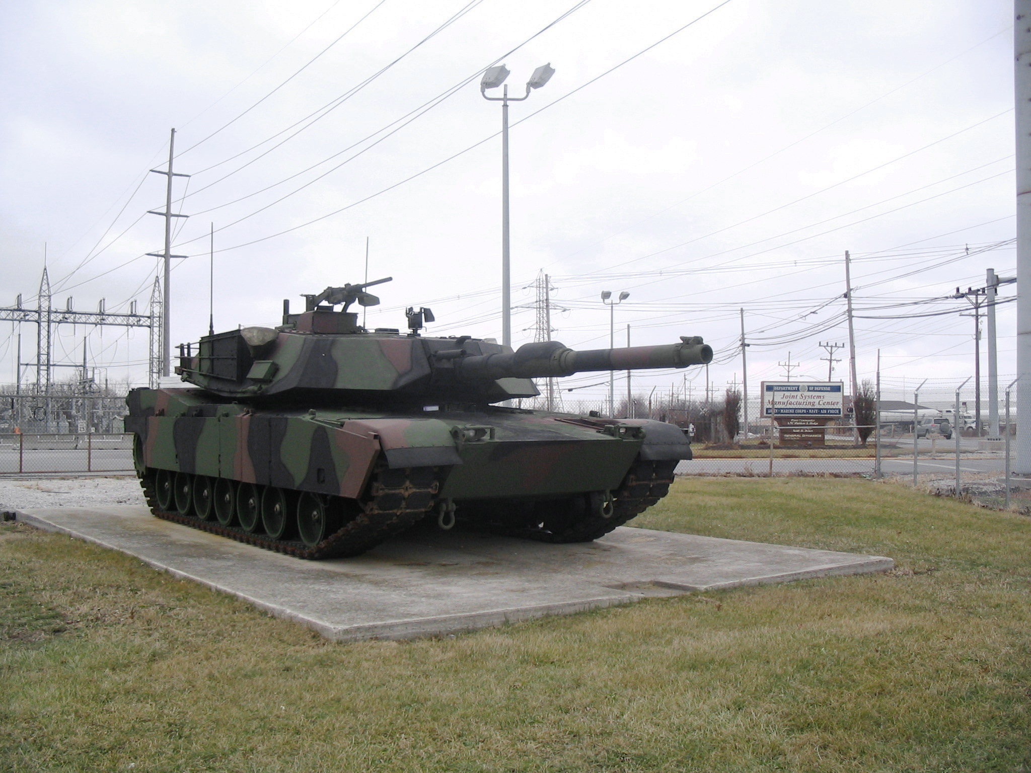 Main entrance to Joint Systems Manufacturing Center. An M1A1 Abrams, the main product of the plant, sits on a display platform to the left of the entrance gates. To the right of the gates sits the "Department of Defense - Joint Systems Manufacturing Center" sign, visible in the background to the right of the picture.